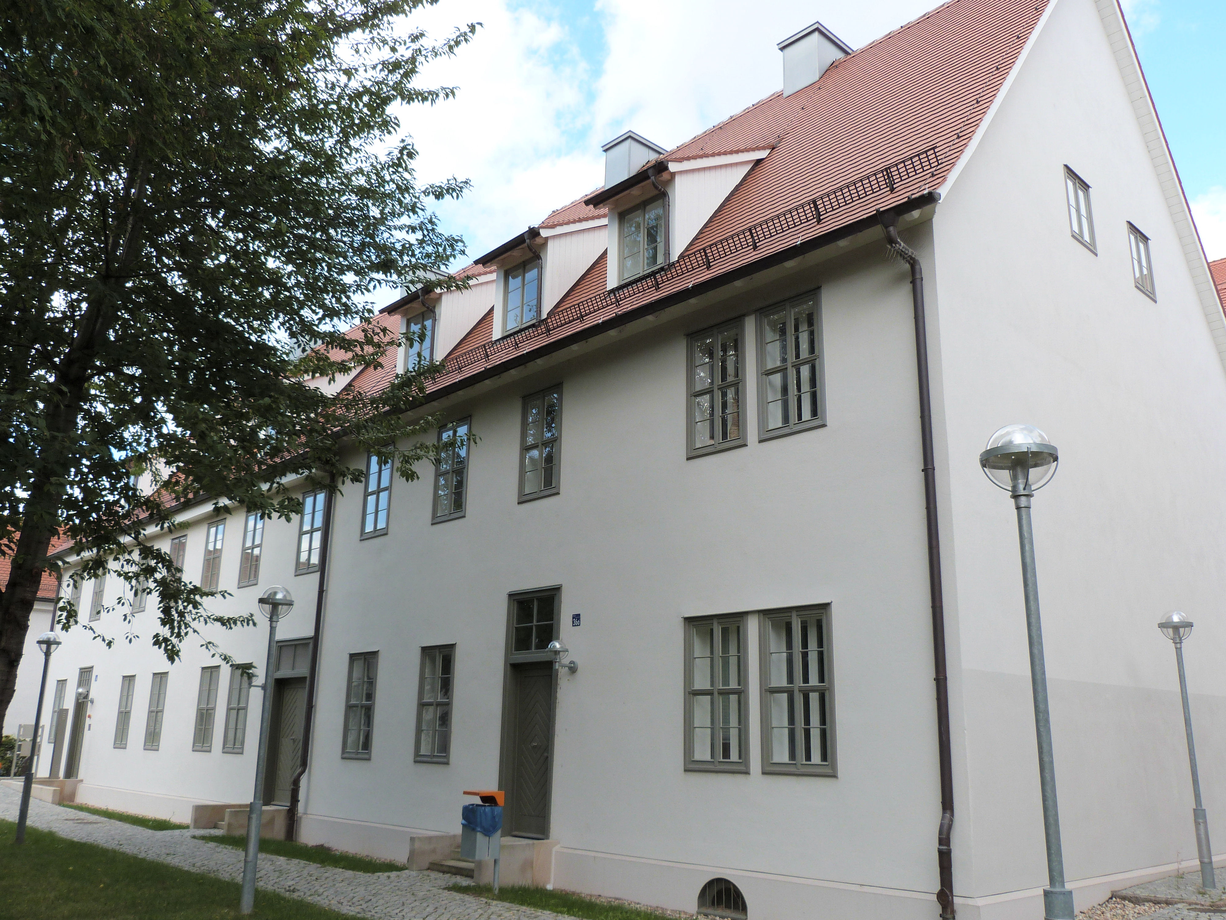 Houses 36 and 36a, former agricultural buildings, Francke foundations in Halle (Saale), today Institute for Teacher Training